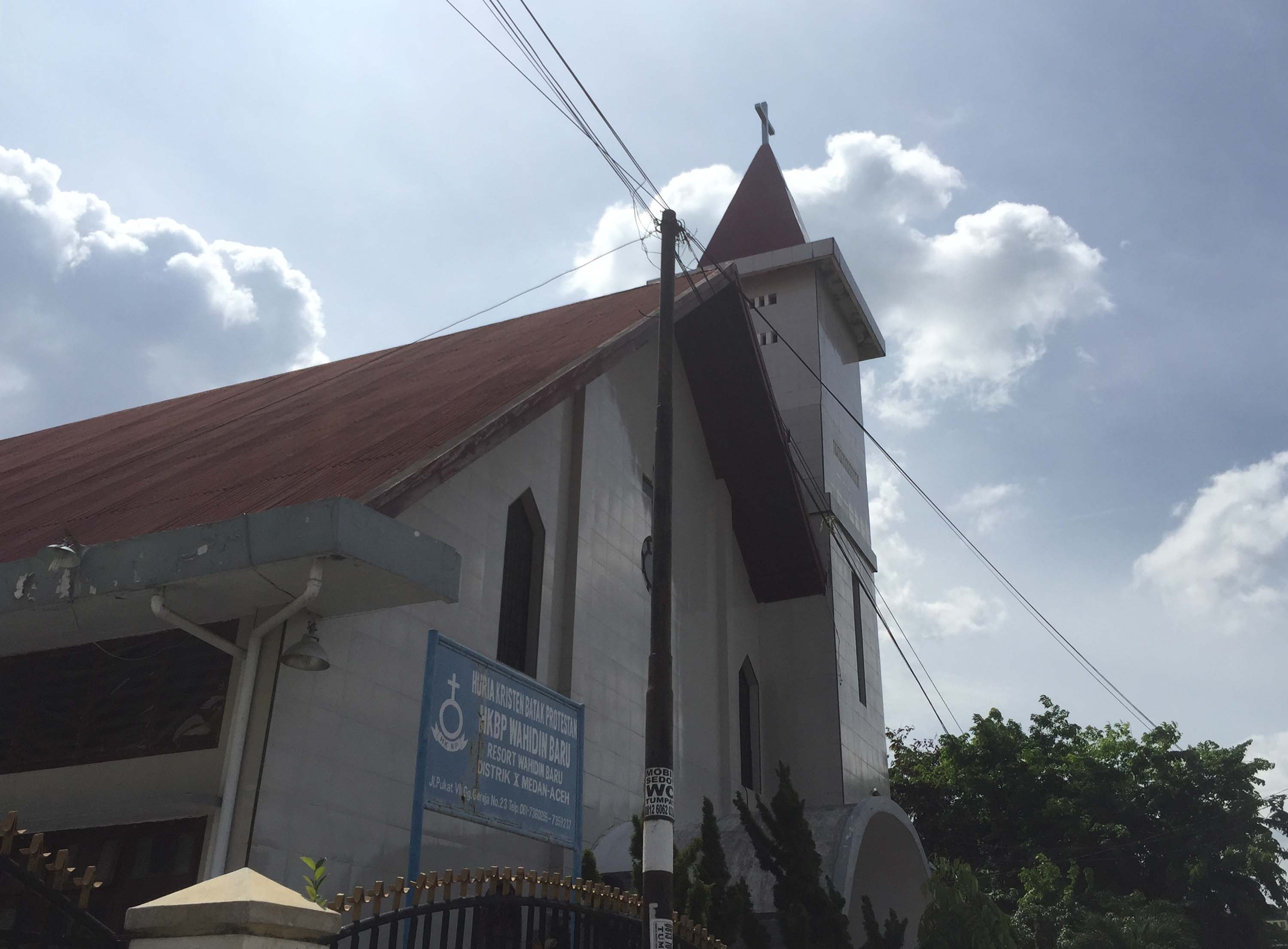 HKBP Wahidin Baru, Res. Wahidin Baru Church in Bantan Timur, Medan Tembung, Medan